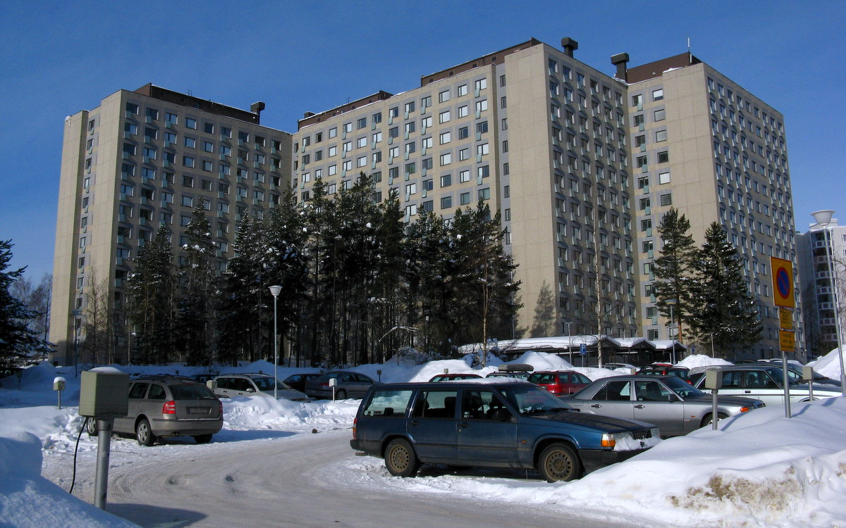 Mikontalo apartment complex in Hervanta, Tampere, Finland.